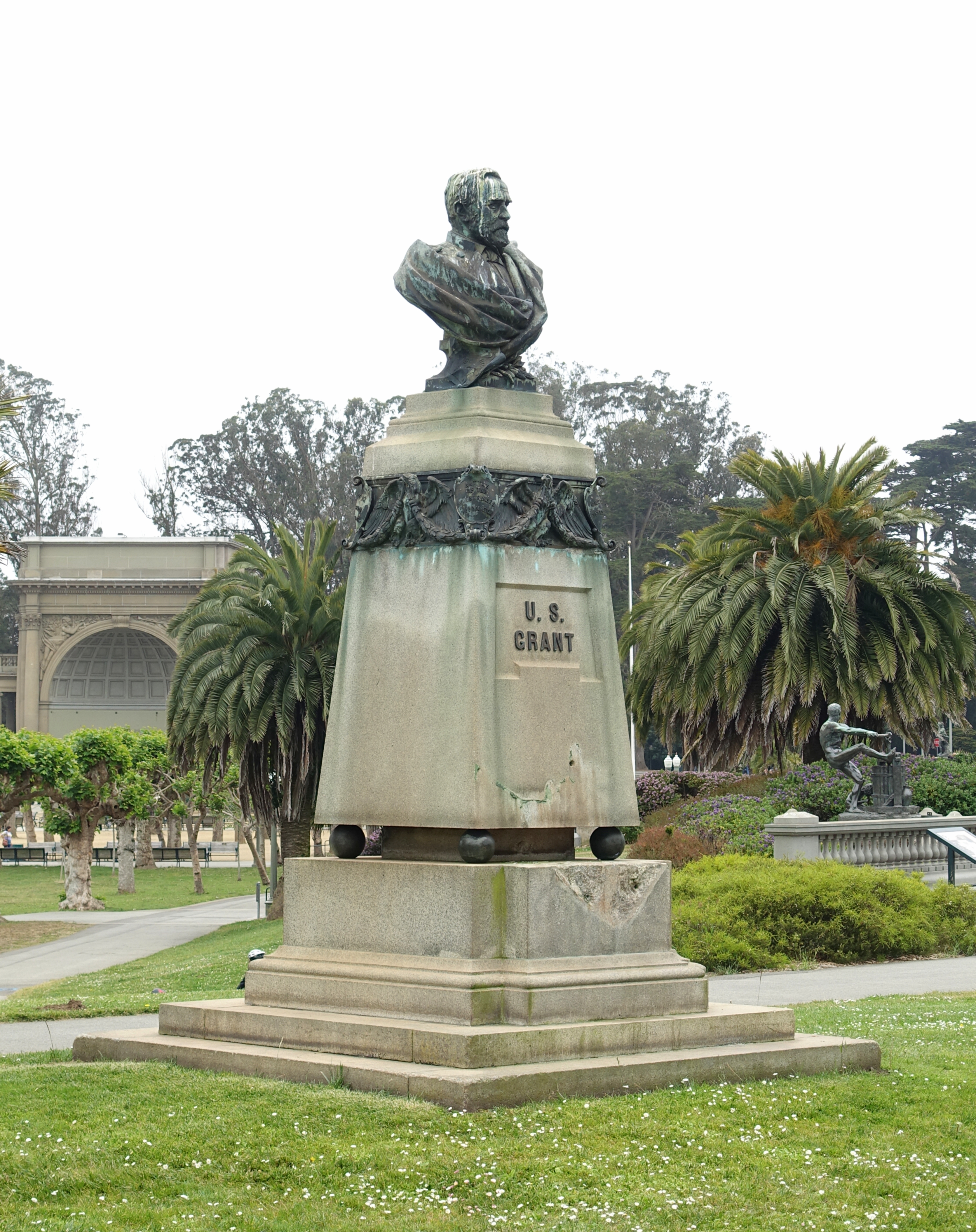 Monument to Ulysses S. Grant by Rupert Schmid (1854-1932) - Golden Gate Park, San Francisco, California, USA. This artwork is in the public domain because the artist died more than 70 years ago.